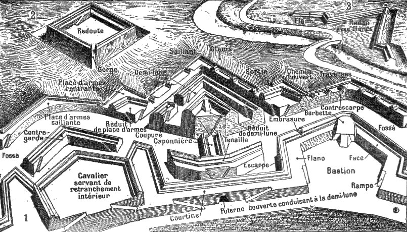 Fortification: old engraving, with caption